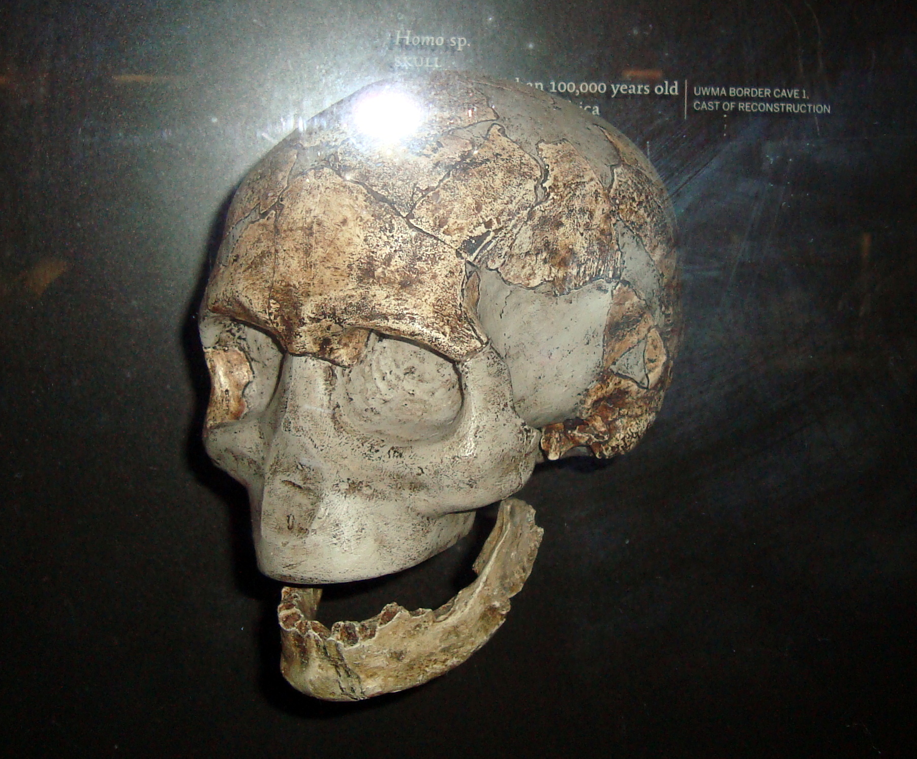 cast of homo sapiens skull from Border Cave South Africa. Fossil is about 100,000 years old